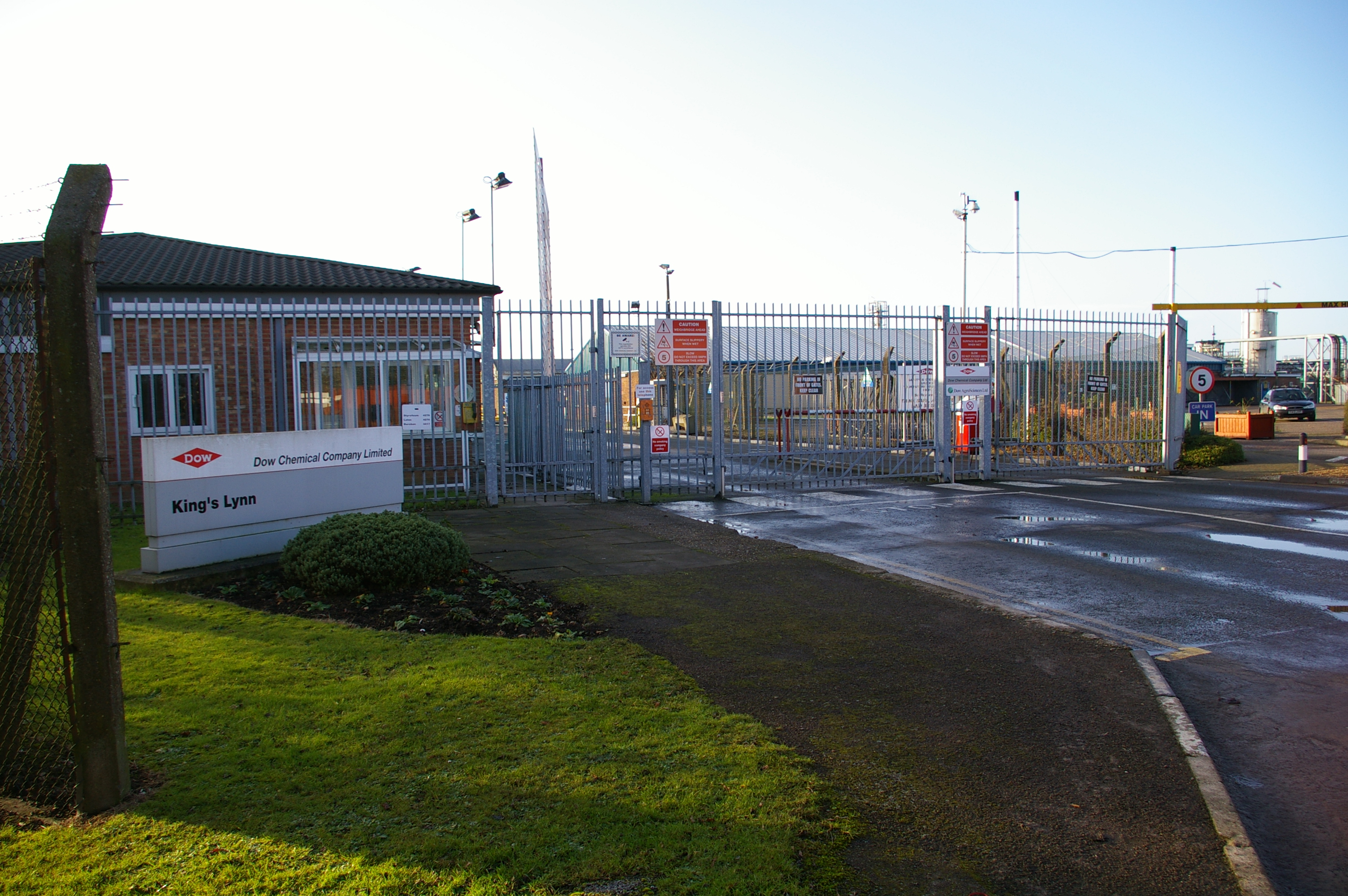 Dow Chemical works This seems to be the main entrance.